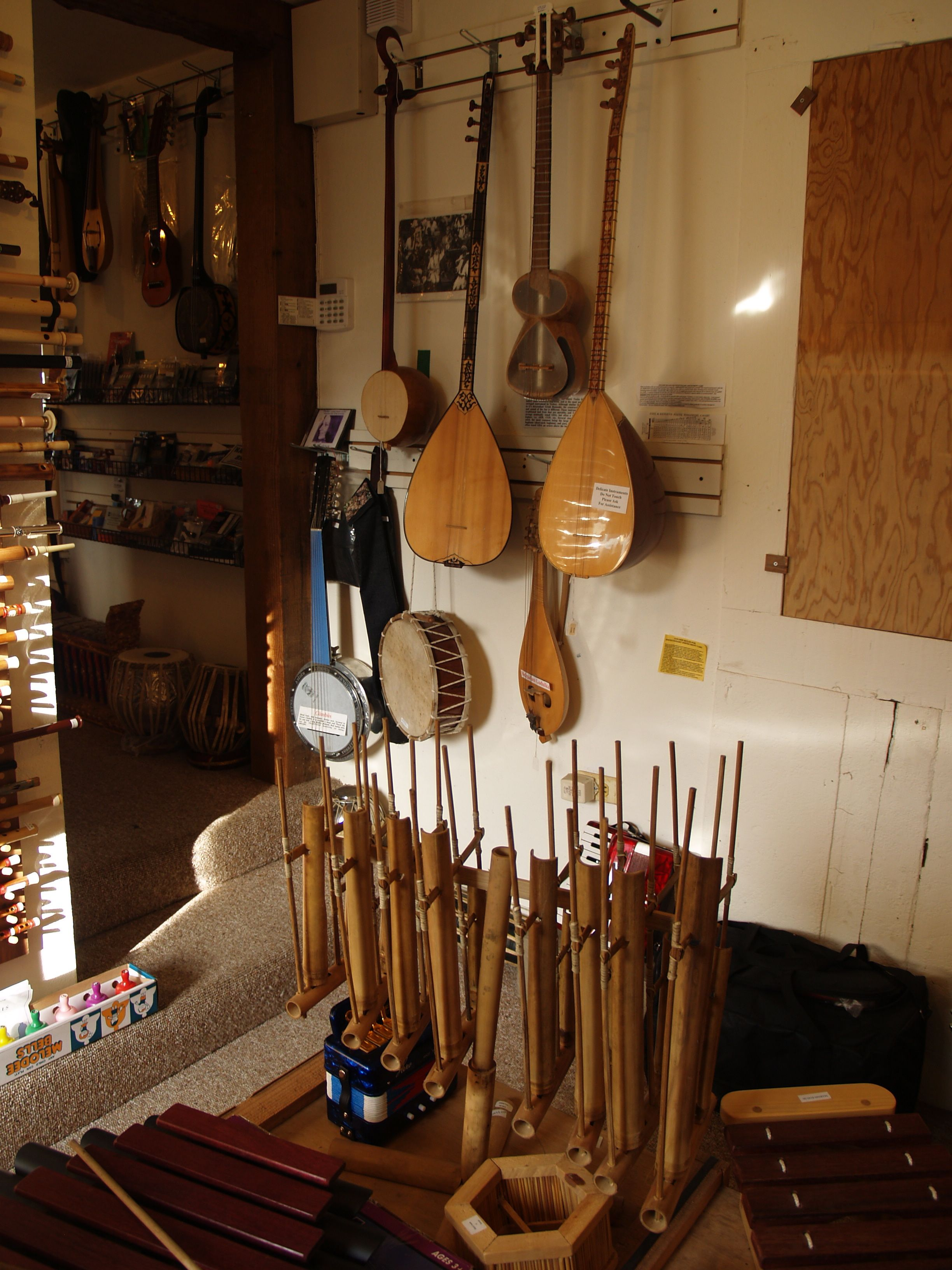 Strum sticks, Lark in the Morning (music shop) upper Erhu or its family Saz Tar Saz middle Turkish Cümbüş or its family small drum Gadulka bottom Erhu or its family “strumsticks”